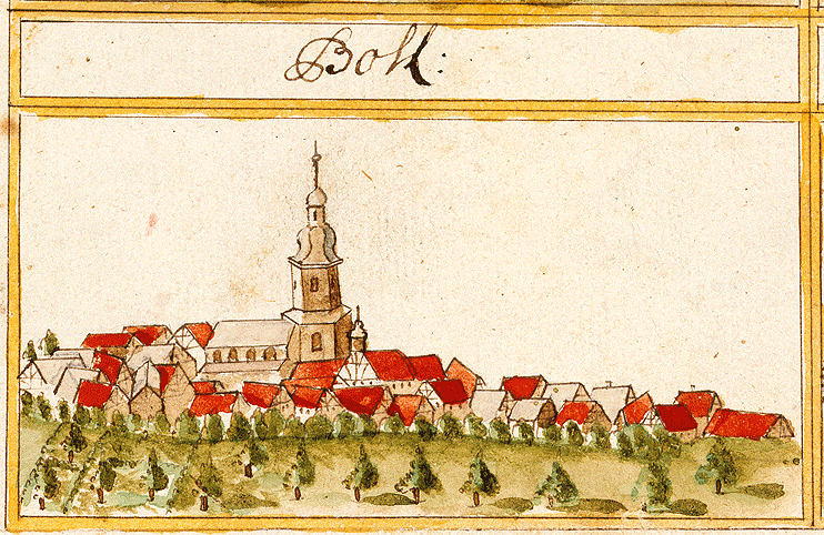 View of Boll from the forest register books created by Andreas Kieser